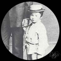 Ludwig Johann Beethoven as a child / son of Karl Beethoven / great-nephew of Ludwig van Beethoven